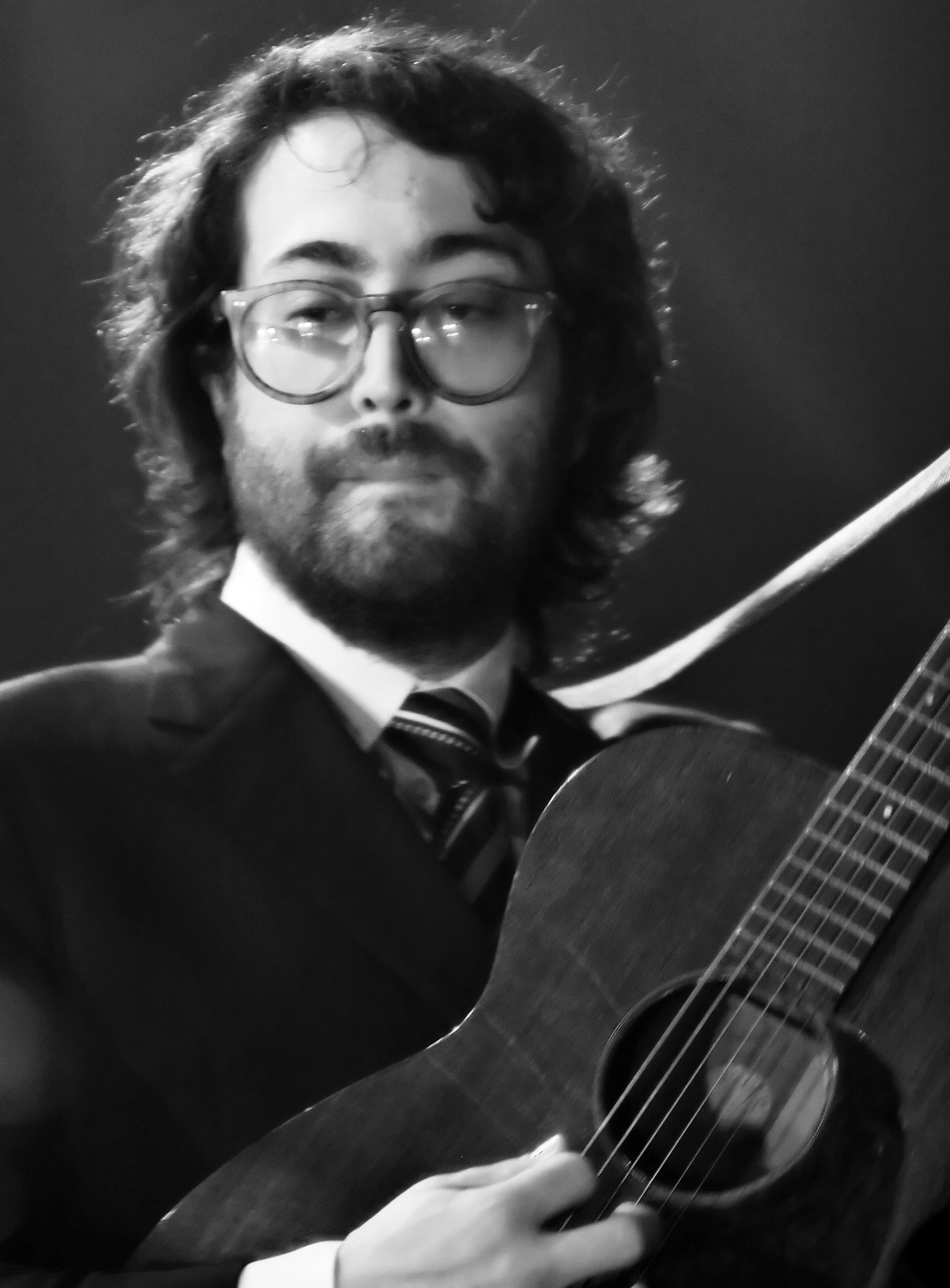 Sean Lennon in concert in Nice.